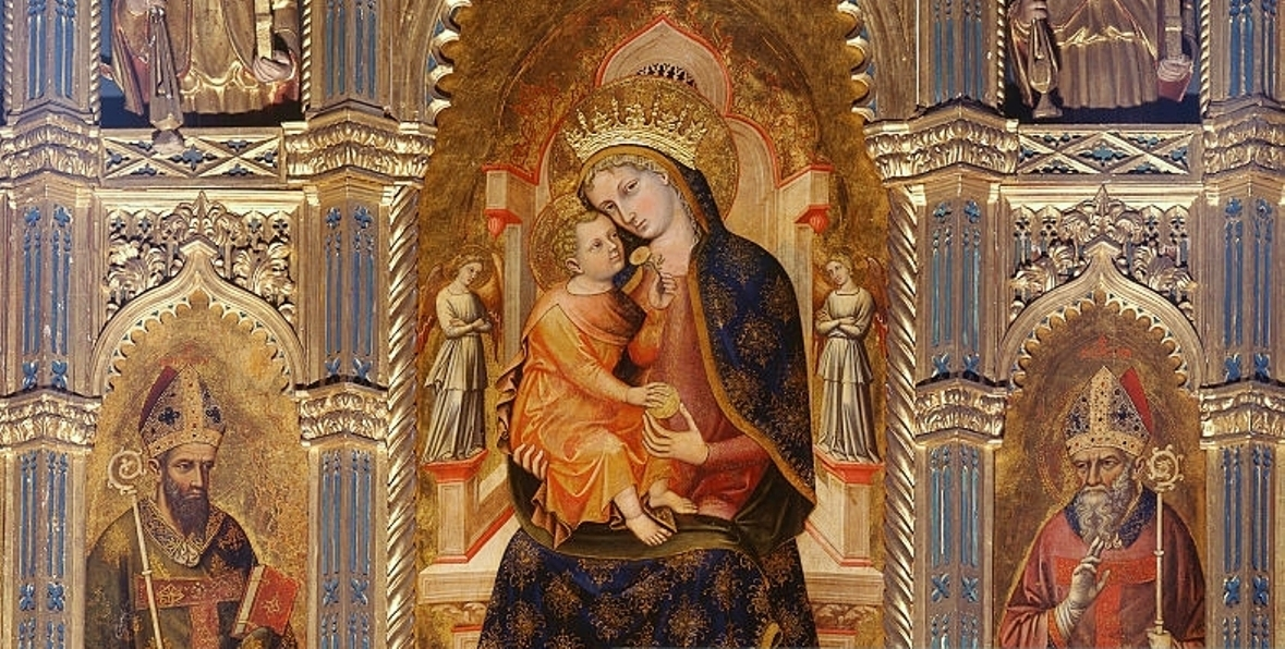 Stefano di Sant'Agnese. Madonna and Child, St. Blaise, St. Martin. Detail of Polyptych of the Virgin,1385, San Zaccaria, Venice